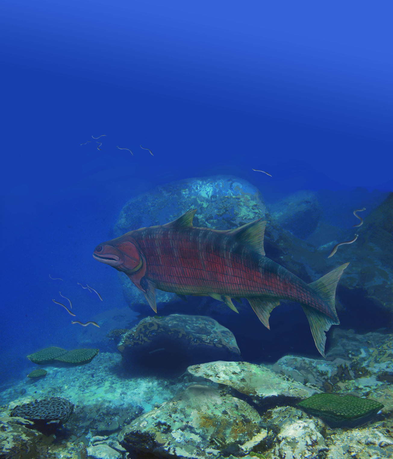 Life restoration of Guiyu oneiros from the Kuanti Formation (Late Ludlow, Silurian), Qujing, Yunnan, China.